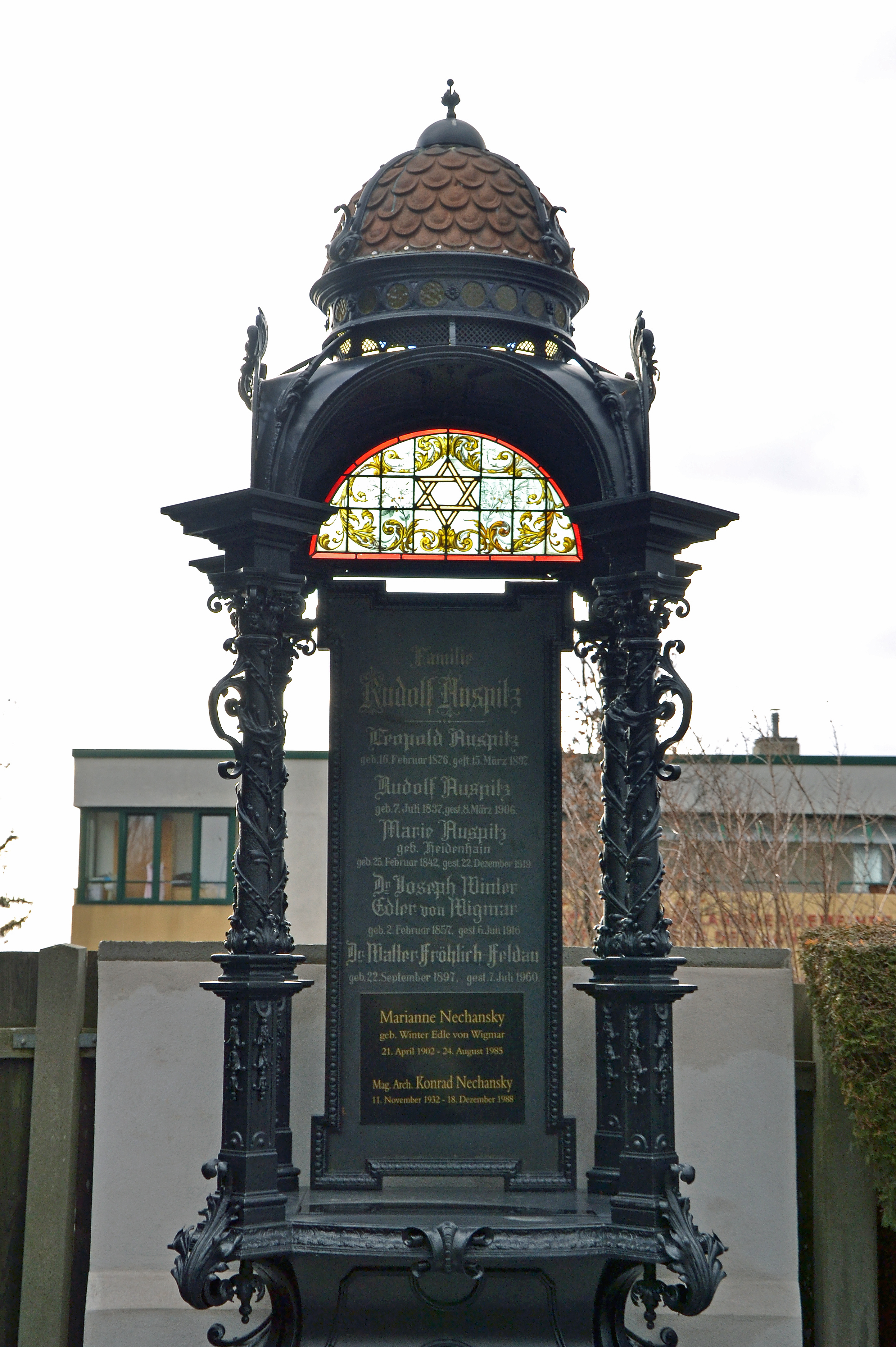 Grave Family Auspitz, Cemetery Döbling, Vienna